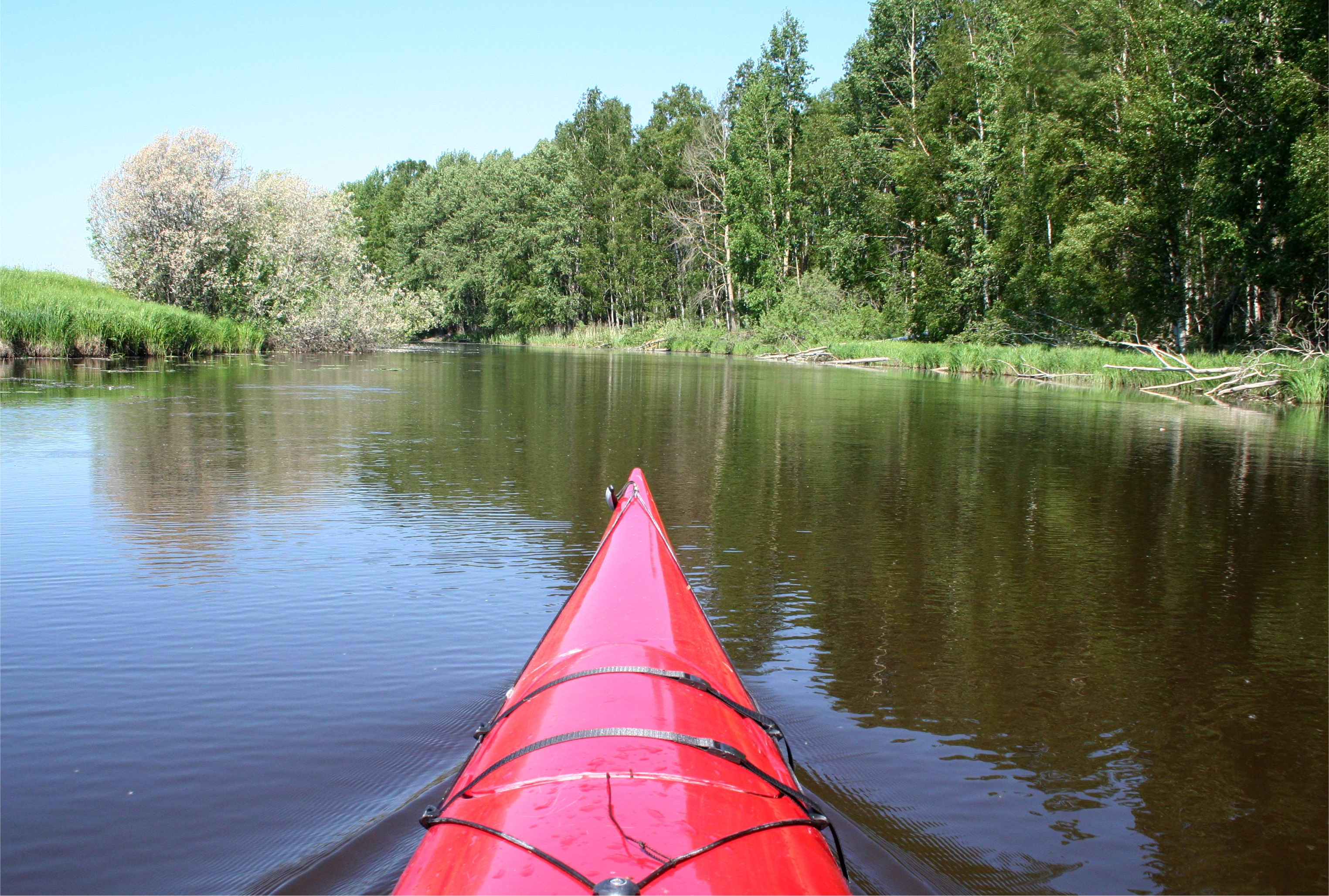 The river Ala-Kauvatsanjoki at the connection to river Kokemäkijoki.